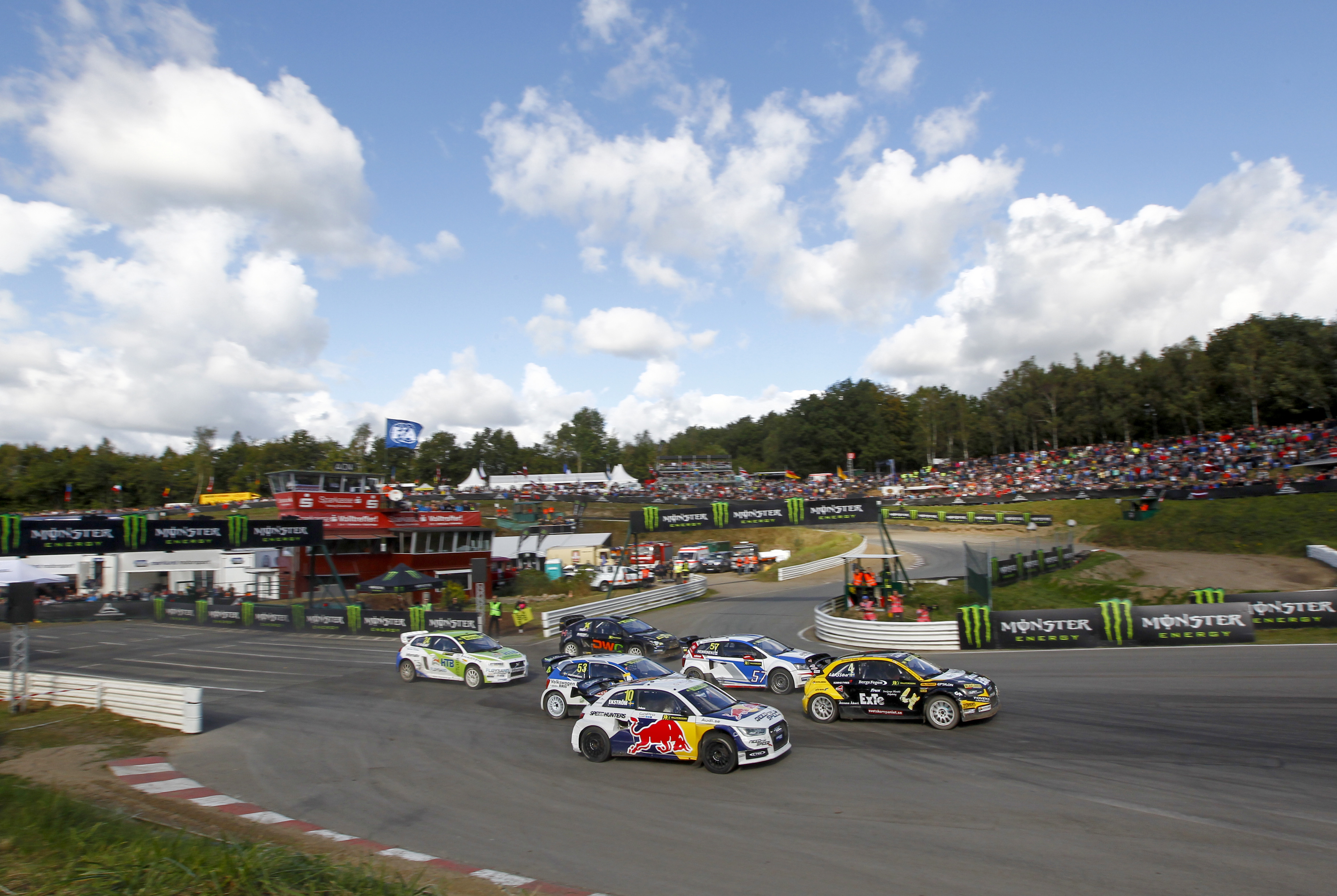 2014 FIA World Rallycross Championship Round 09 Estering, Germany 20th & 21st September 2014 Worldwide Copyright: EKS/McKlein